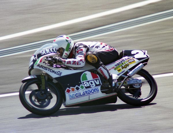 Ezio Gianola, in Japanese Grand Prix 1989